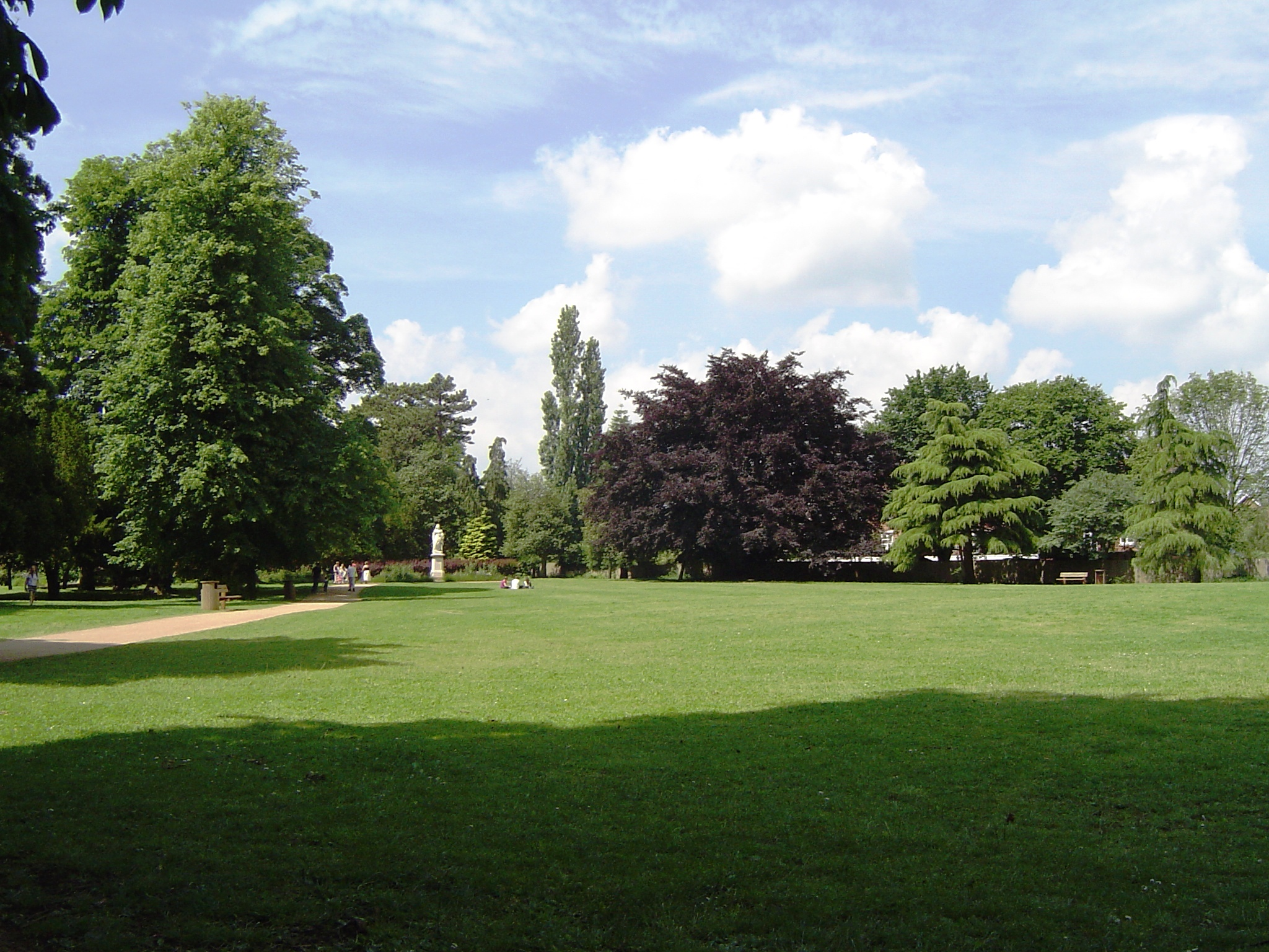 Site of Abingdon Abbey